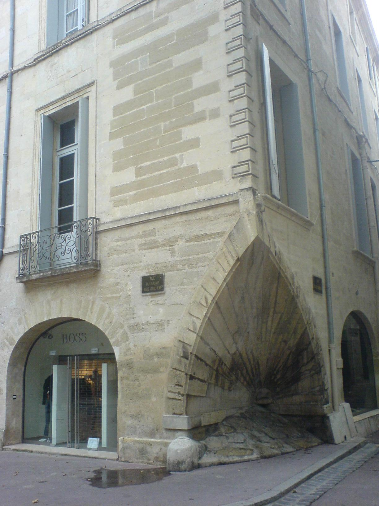 "Hôtel de Sarret", hotel in Montpellier .